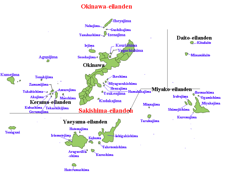 Map of the Okinawa and the Sakishima Islands, Okinawa Prefecture, Japan